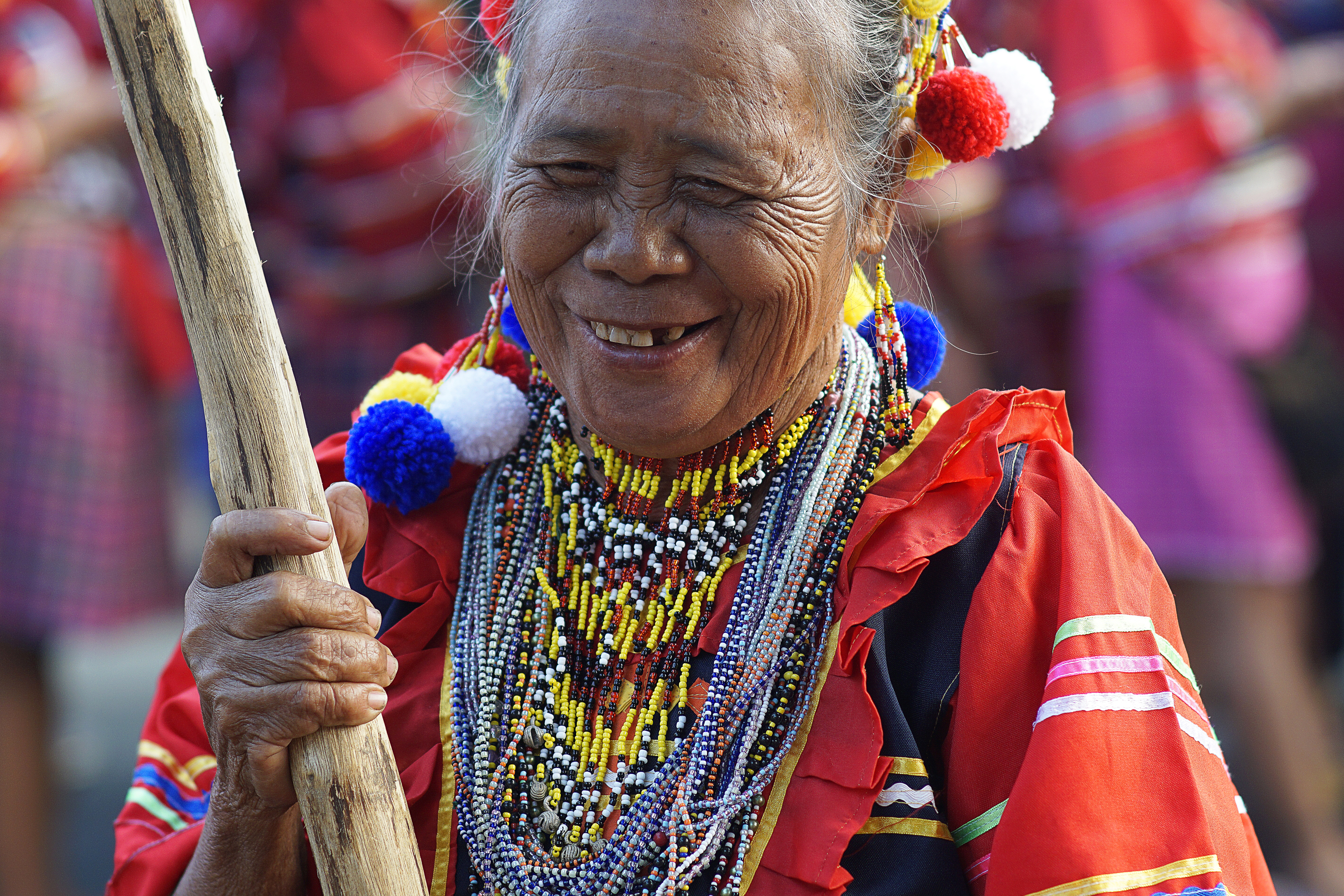 A Bae (female tribal leader), smiles as she dances in the streets of Malaybalay City in Bukidnon during Kaamulan festival. This photo has been taken in the country: Philippines